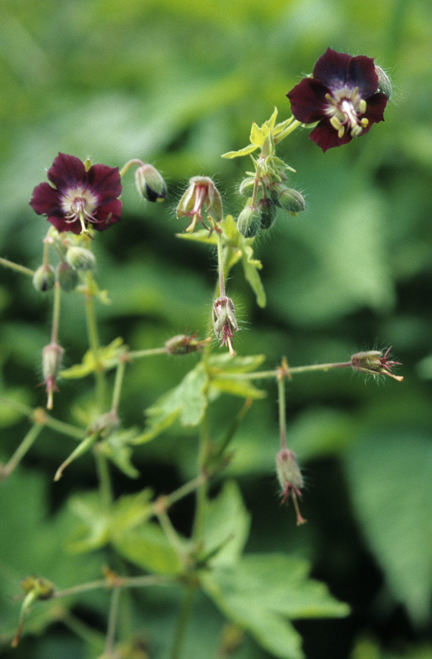 Geranium phaeum (Geraniaceae), Nowa Bystrzyca village in Bystrzyckie Mts. (Sudetes, Poland), Geranio phaei-Urticetum dioiceae plant community.